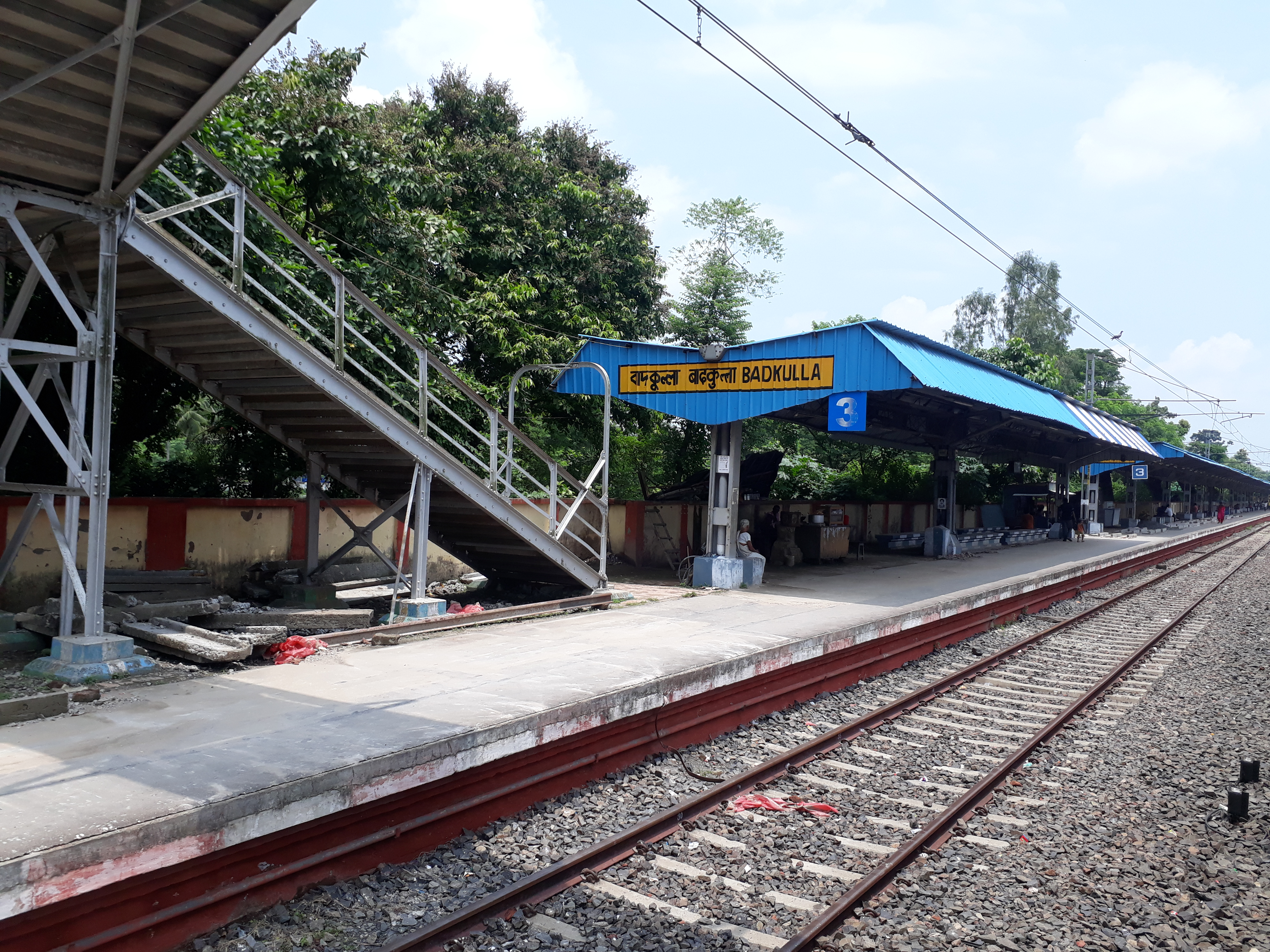 Badkulla railway station on the Ranaghat–Krishnanagar line, in Nadia district, West Bengal